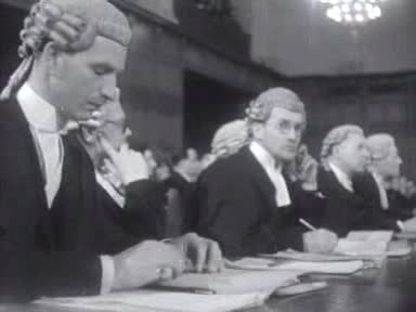 The British legal team in the Corfu Channel Case seated while Sir Hartley Shawcross (not shown) speaks before the Court.